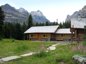 Elizabeth Parker Hut in Summer